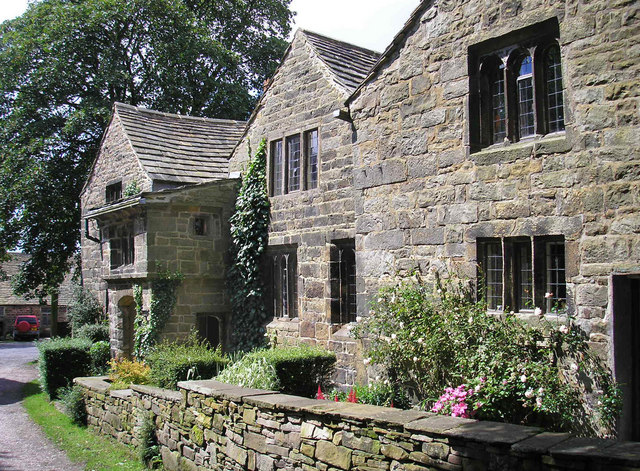 Spenser's House The house in Hurstwood associated with the Elizabethan poet Edmund Spenser who was born locally.